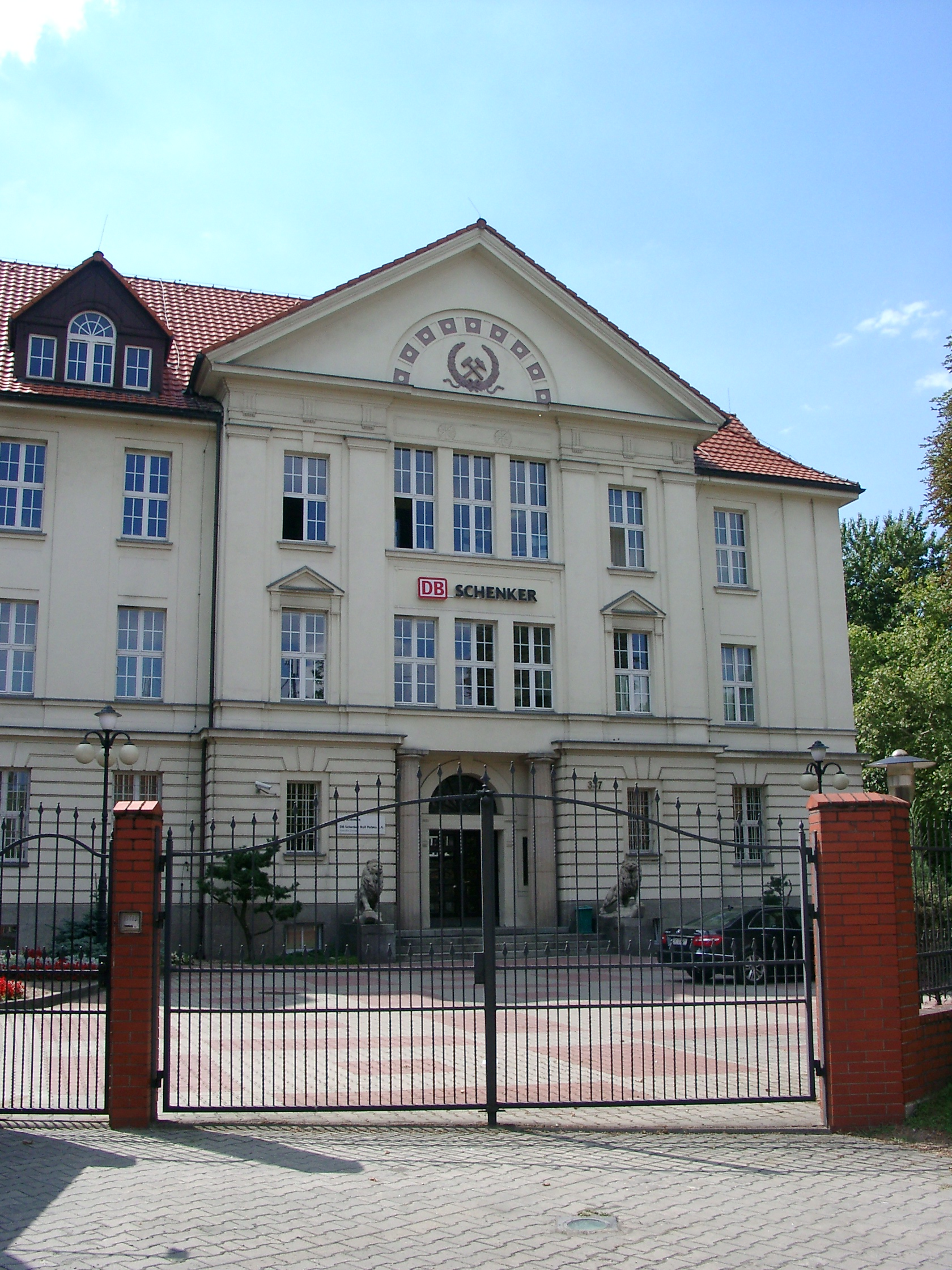 DBSRP Head Quarter